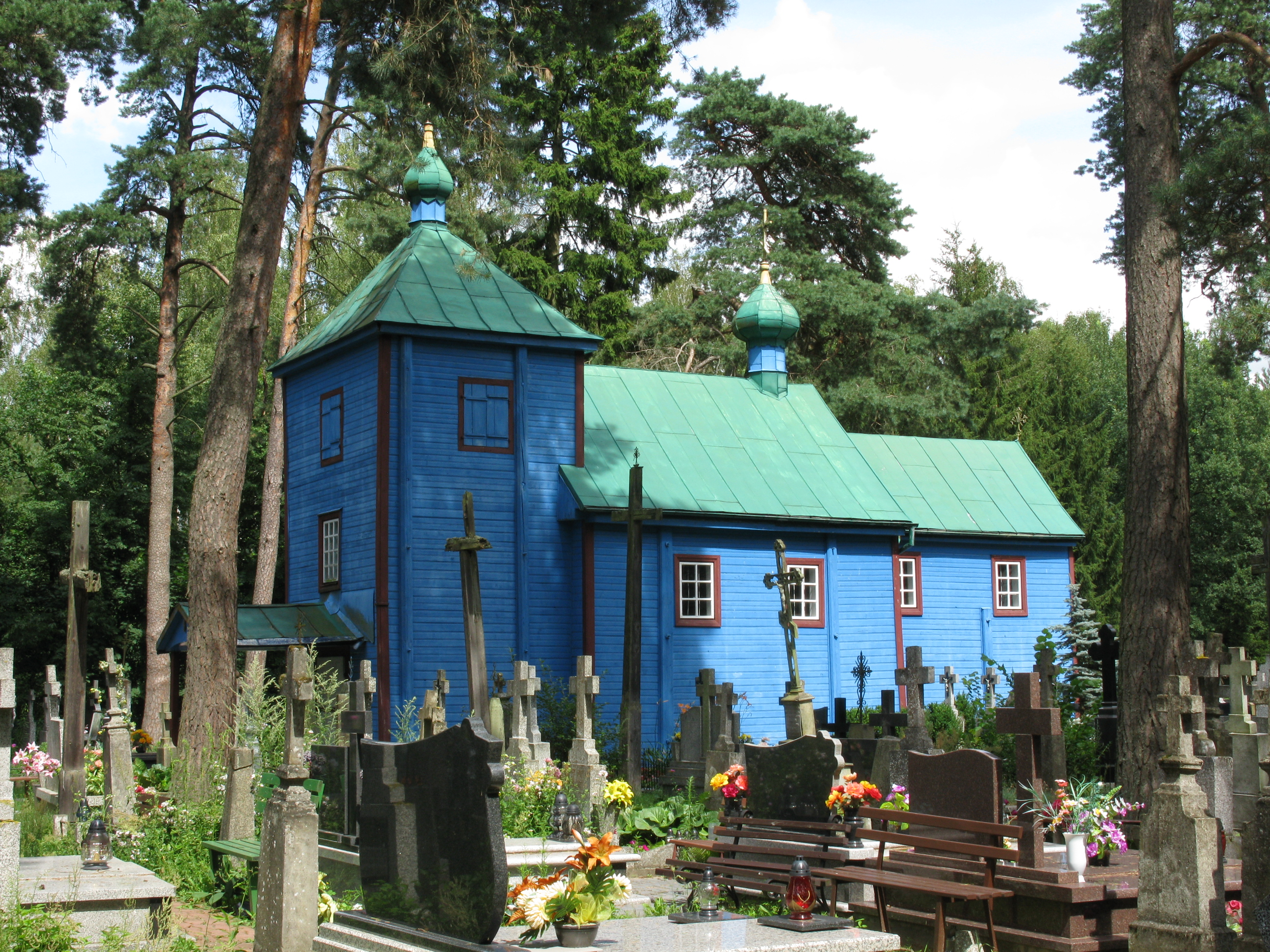 Saint Onuphrius Orthodox Church located in forest near Augustowo-Stryki road (Podlaskie, Poland).